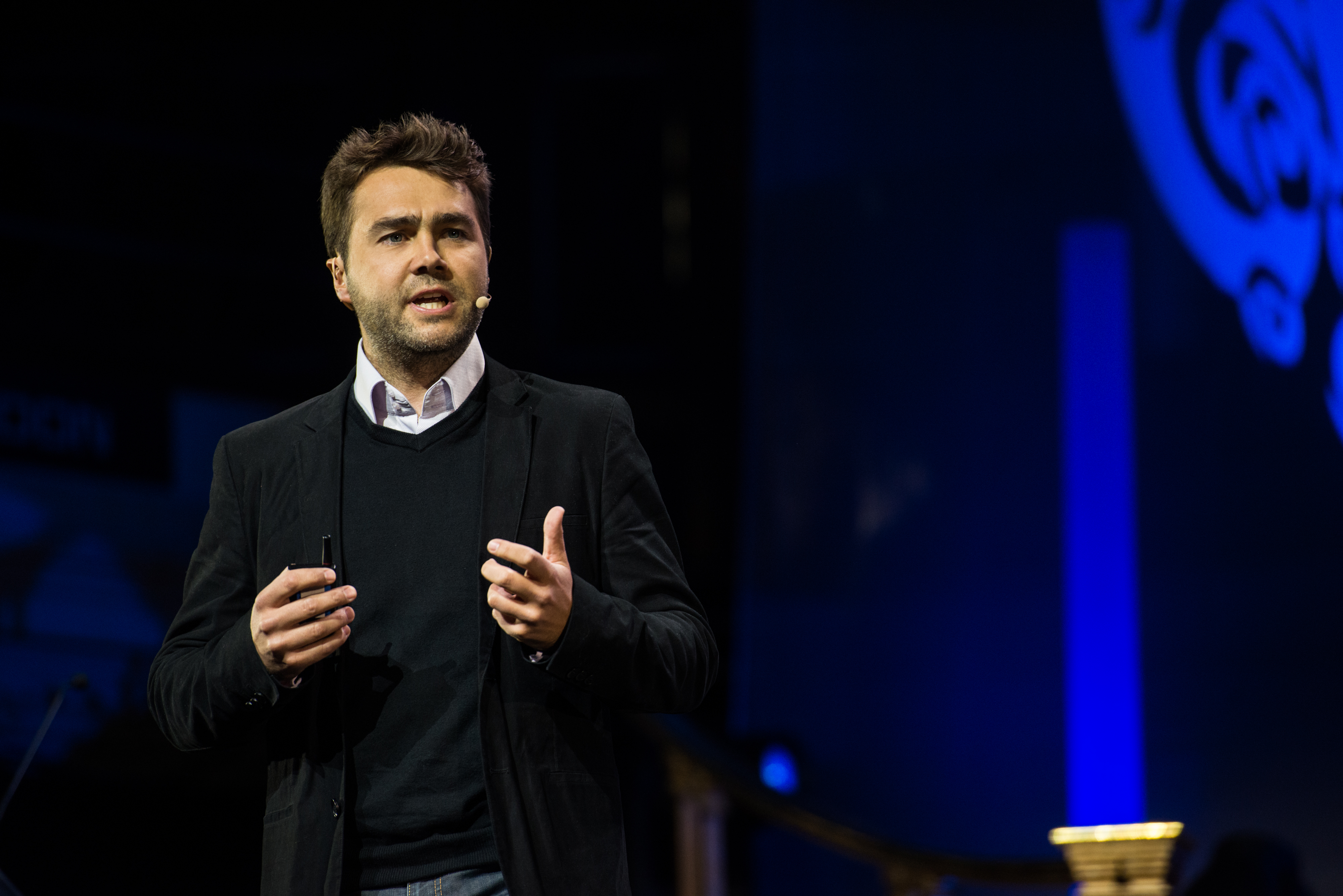 This is Frédéric Mazzella, the Blablacar's Creator, during a conference call.